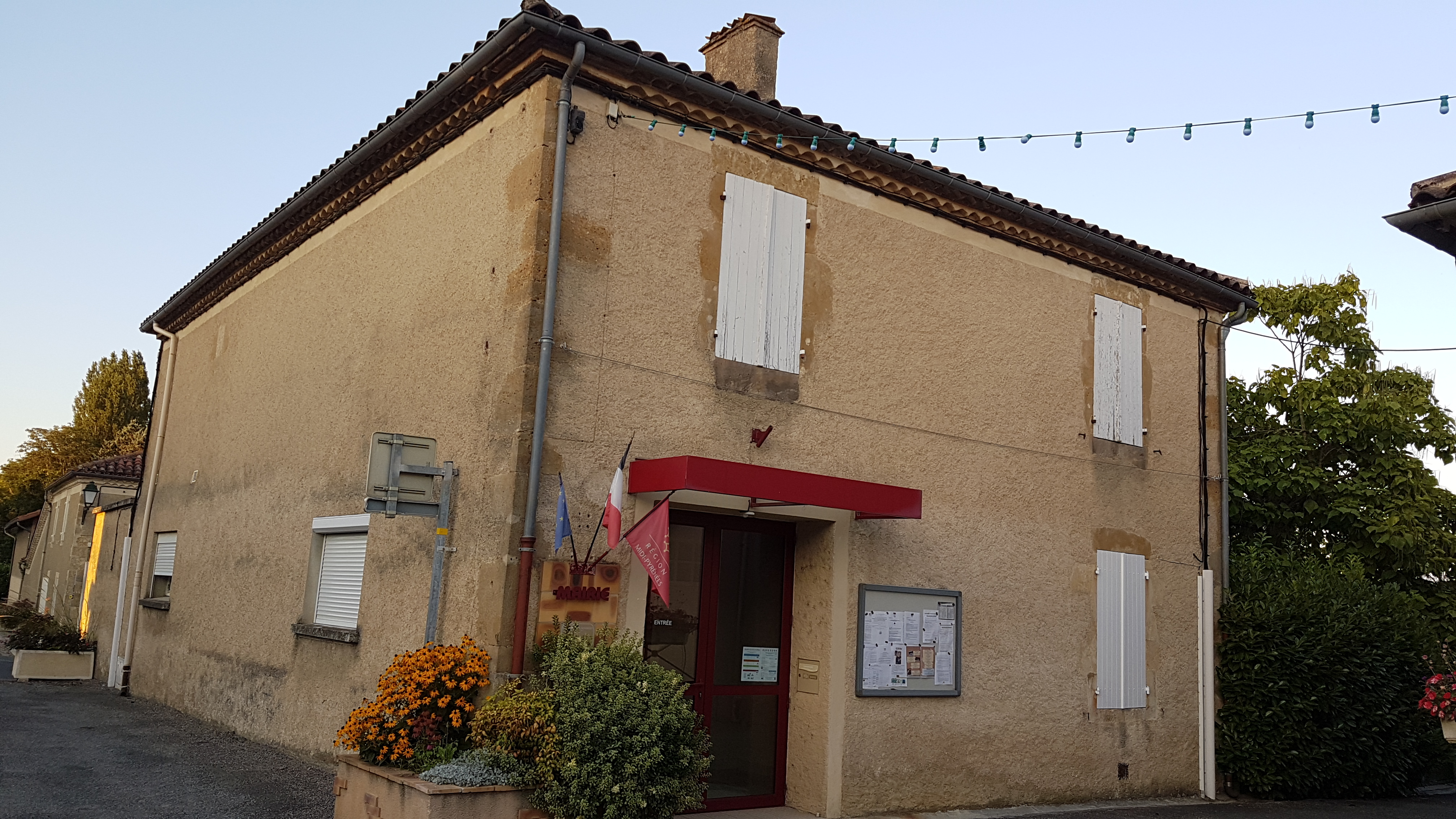 The town hall in Ornézan